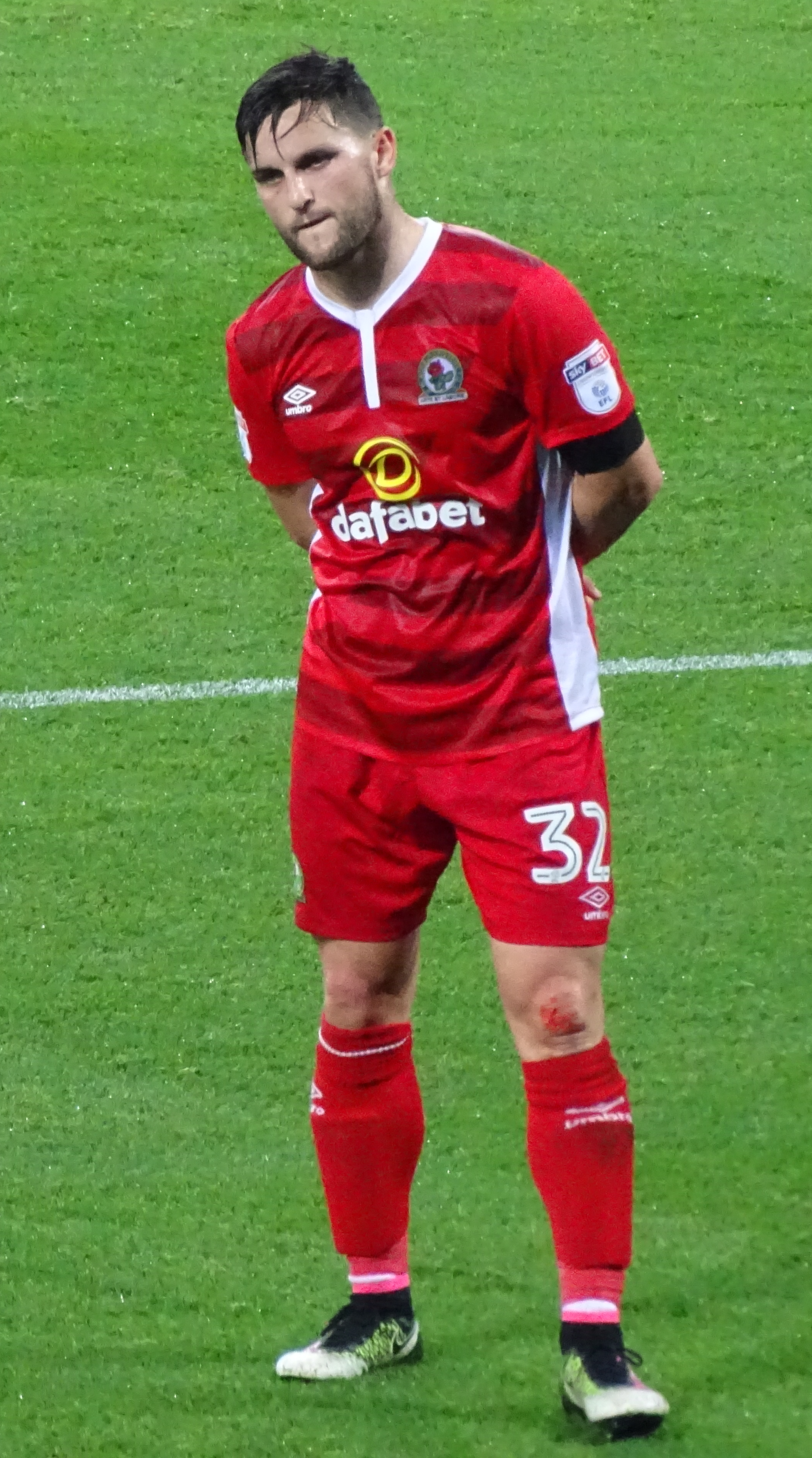 Craig Conway playing for Blackburn Rovers in Championship match against Cardiff City